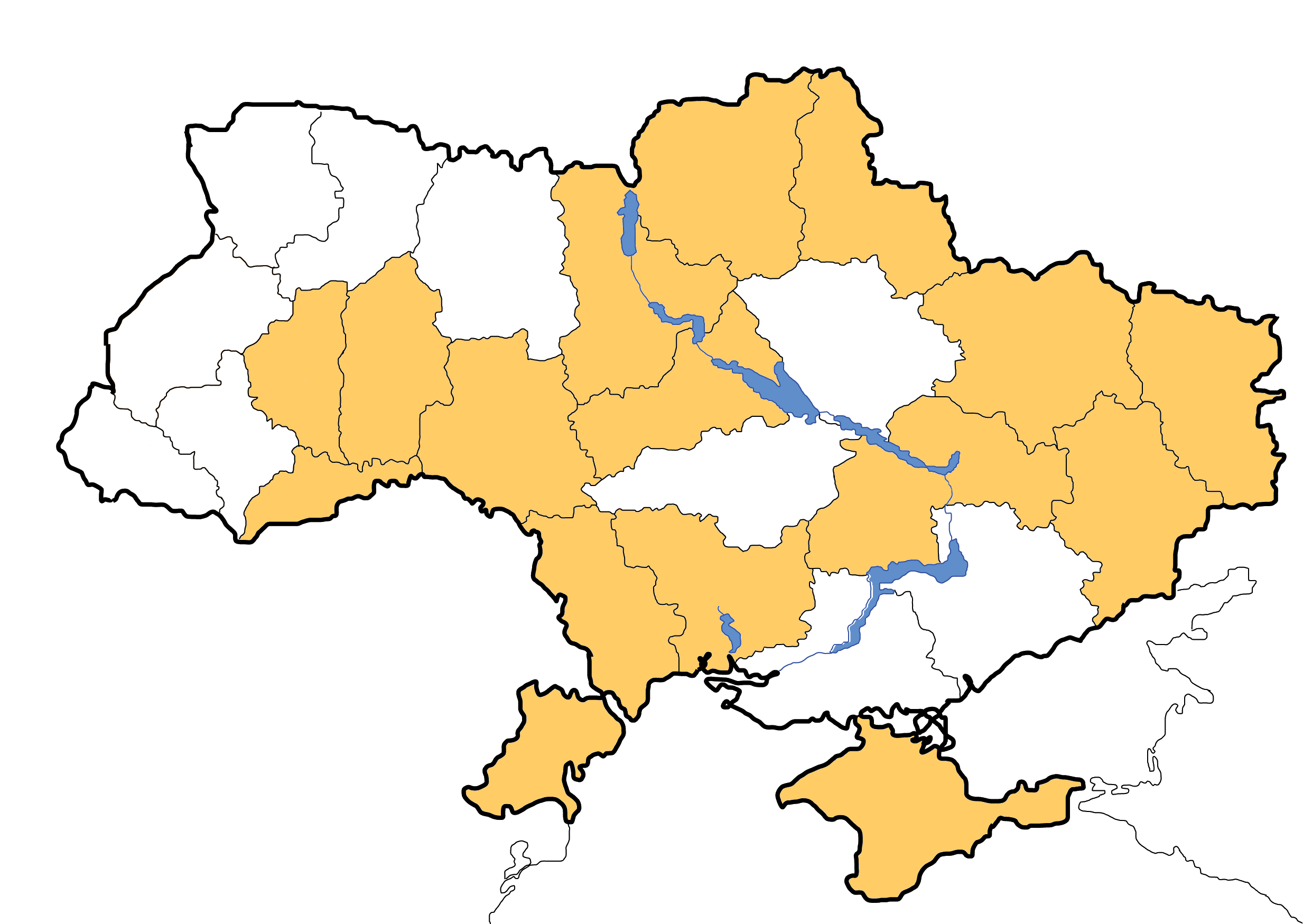 Locations of the early Ukrainian local election which will be contested on May 25, 2014.